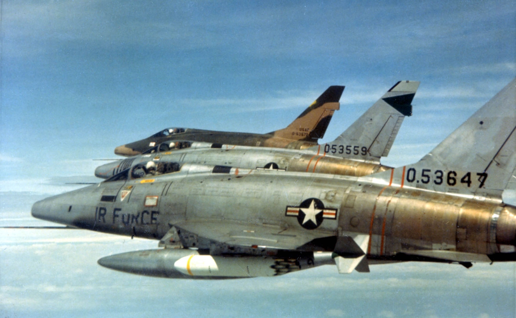 F-100Ds of the 481st Tactical Fighter Squadron over South Vietnam in February 1966. Early F-100s were unpainted when they arrived in Southeast Asia like the foreground aircraft, but all eventually received camouflage paint like the aircraft in the back. (U.S. Air Force photo) North American F-100D-25-NA Super Sabre 55-3647 North American F-100D-20-NA Super Sabre 55-3559